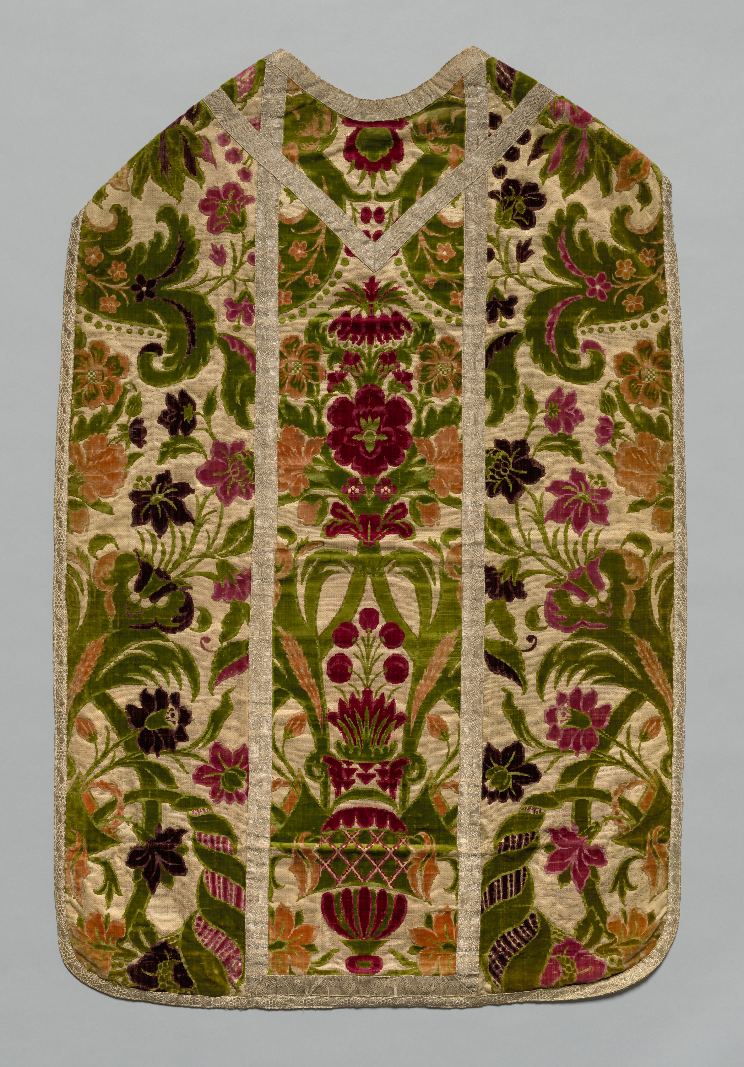 This sumptuous polychrome velvet displays a central vase with abundant flora and exotic leaves flanking curving blossoming fronds on a gilt-metal thread ground. The pattern was created with five colors of cut and uncut (loops) velvet pile. Only the pile warps for the lush green velvet occur across the entire cloth, while each additional color appears in vertical stripes—crimson, peach, rose, and purple. These widely acclaimed velvets from Genoa were the most colorful woven in Europe. Both the long stole and the shorter maniple are insignia of the office of deacons, priests, and the higher clergy. The stole was worn under a chasuble according to the office and the maniple was hung on the left forearm. The burse is a stiff receptacle in which the folded corporal , a white linen cloth on which the sacred bread and chalice are placed during the Mass, is carried to and from the altar. The upper fabric matches the chasuble, the bottom is a plain silk, and the interior has an obligatory linen lining.